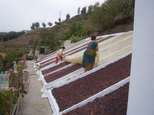 Viticulture in Árchez